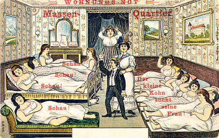 Antisemitic postcard from Germany. Begining of the XXth century. The jew Little Cohn is looking for a wife amongst the good-looking german ladies.